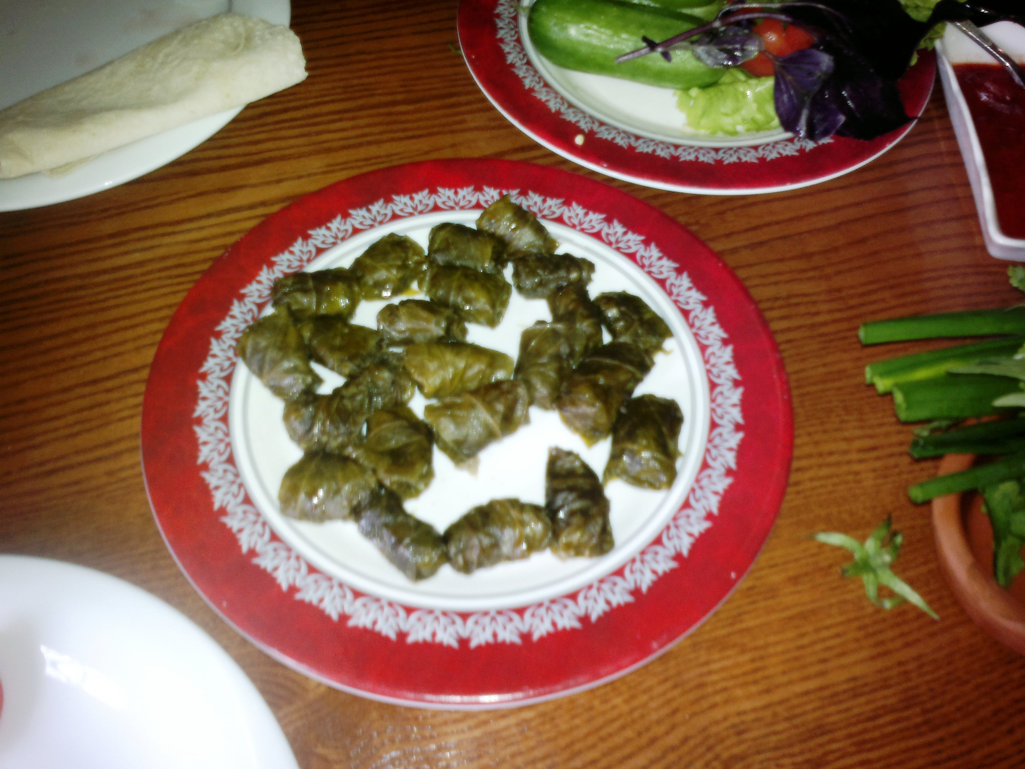 Azerbaijani national dolma made from leaves of Hornbeam.